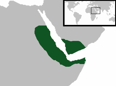 Aksum